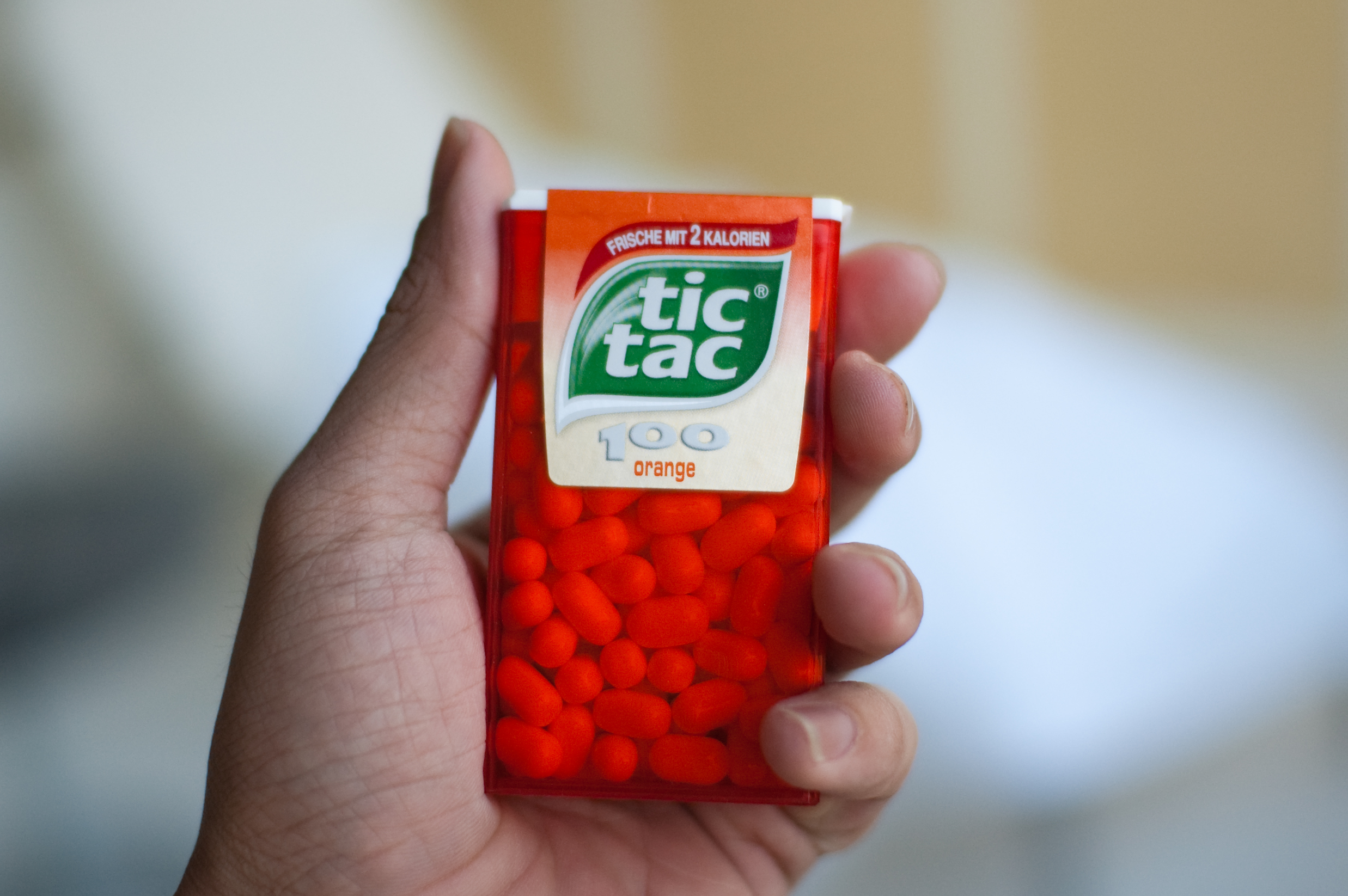 omg! the tic tacs here in switzerland are redonkulous!